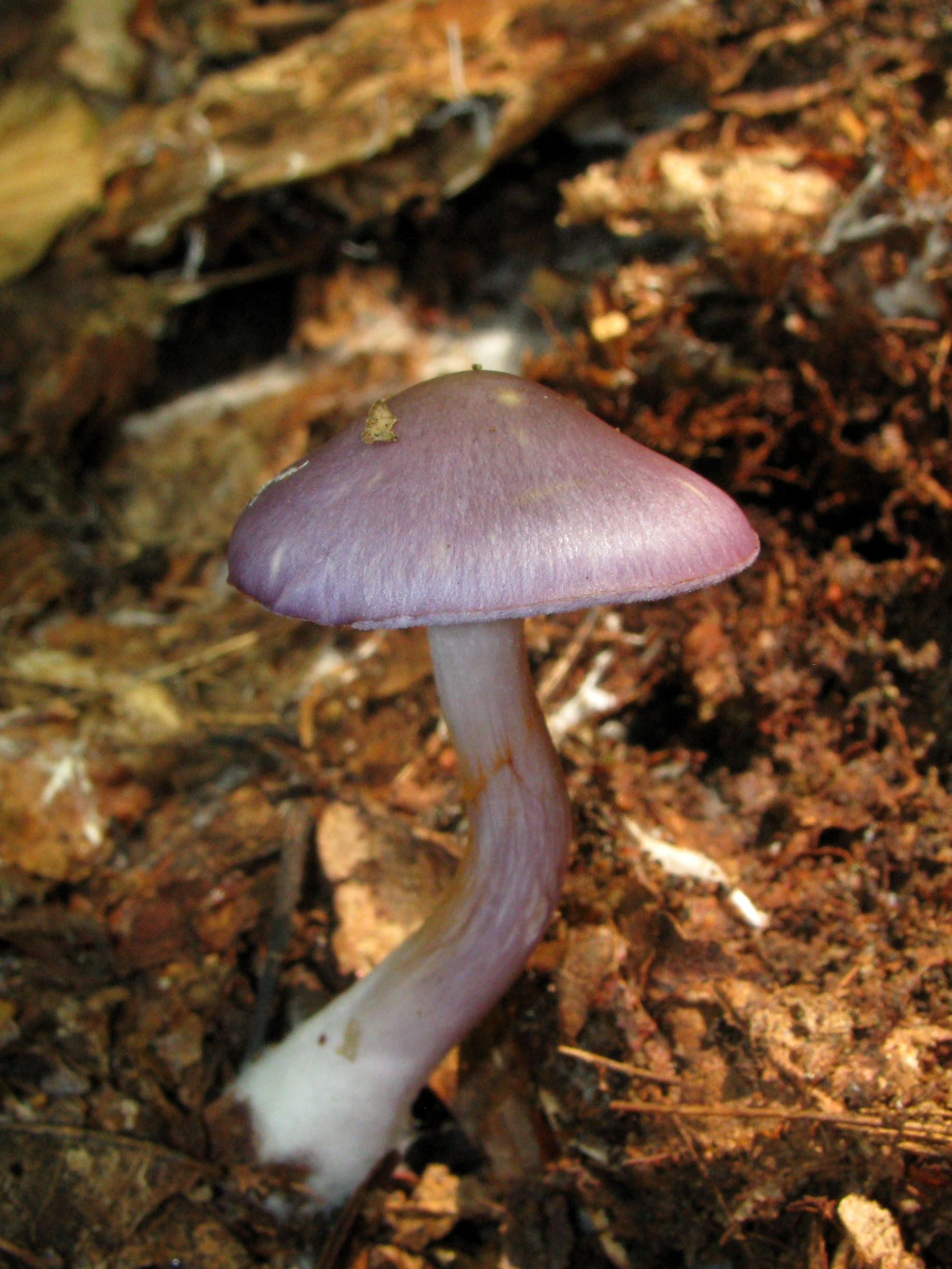 Cortinarius iodes Berk. & M.A. Curtis Location: Strouds Run State Park, Athens, Ohio, USA For more information about this, see the observation page at Mushroom Observer.